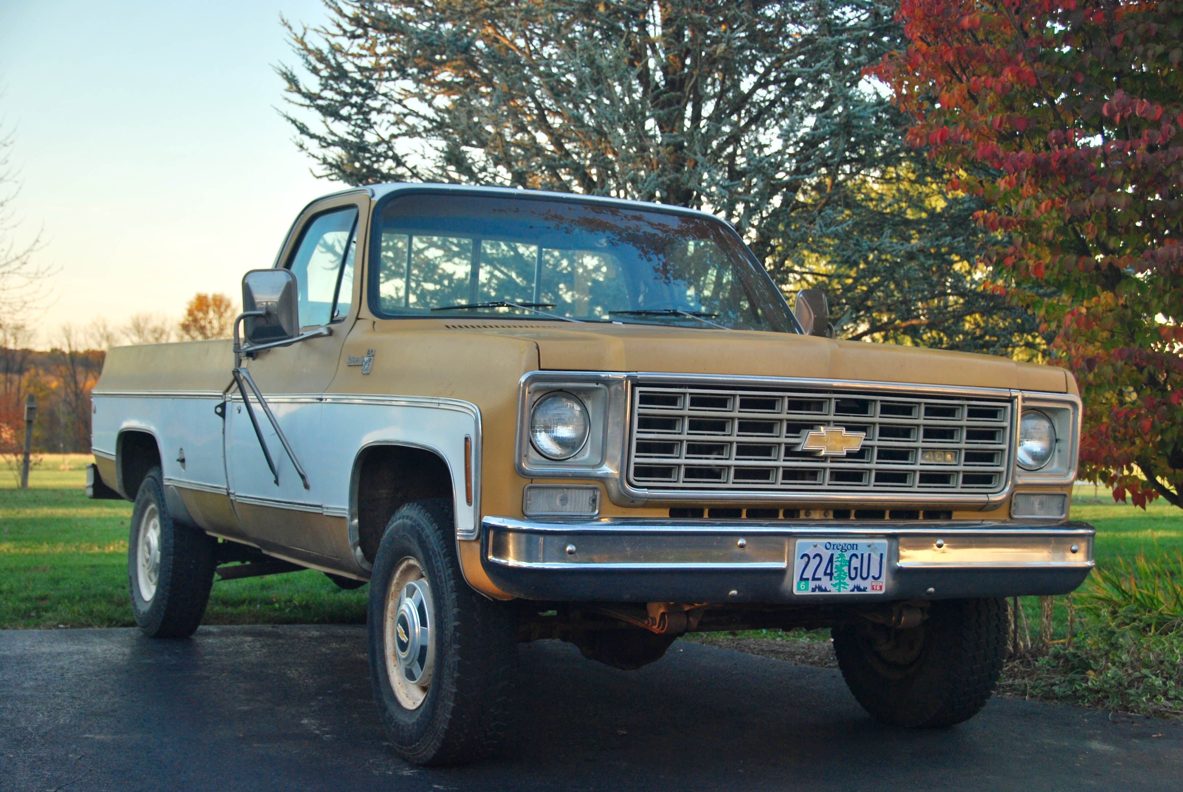 1976 Chevrolet K20 Silverado Camper Special